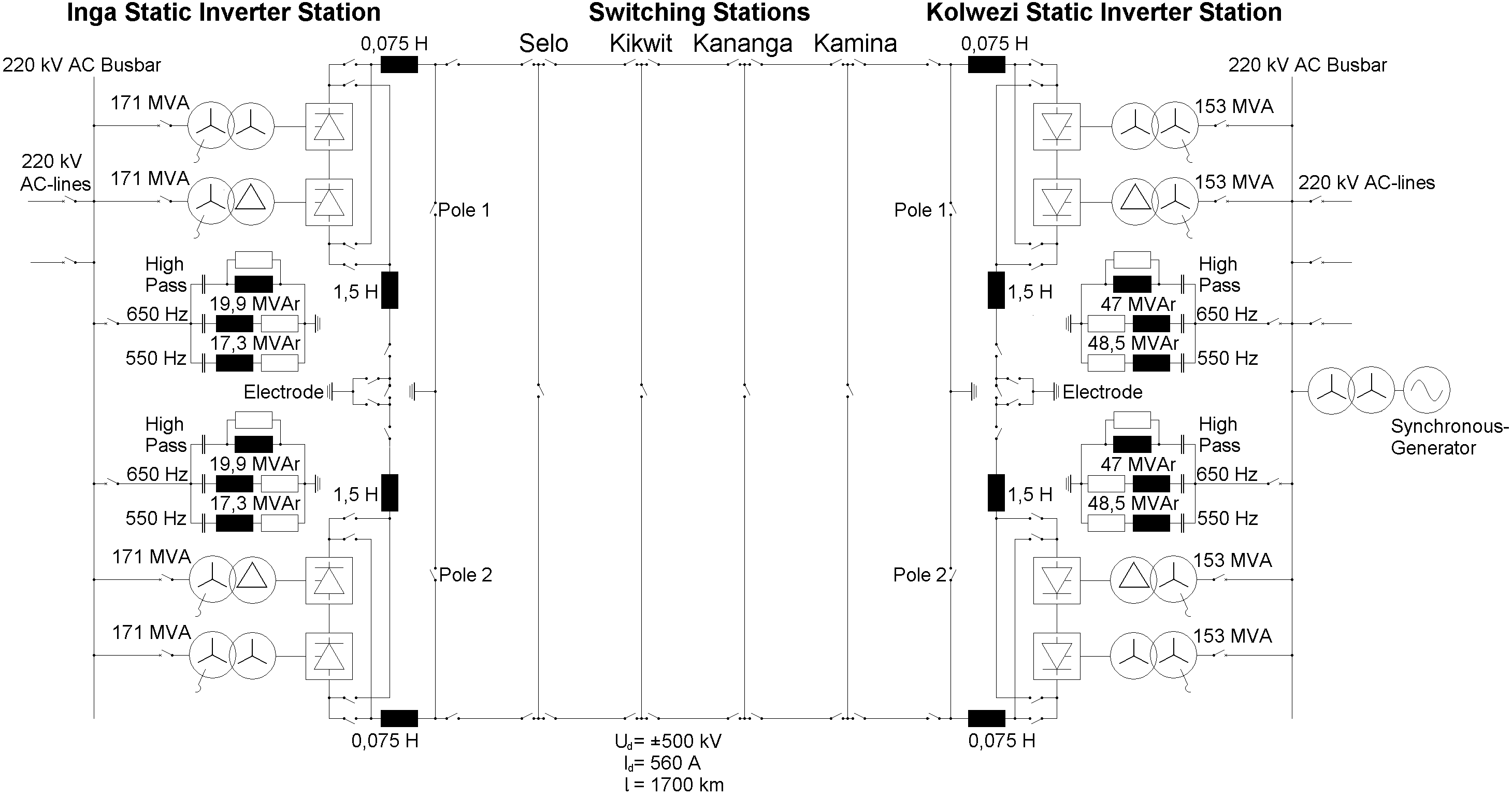 Single line diagram of HVDC Inga-Shaba, drawn with Paint.